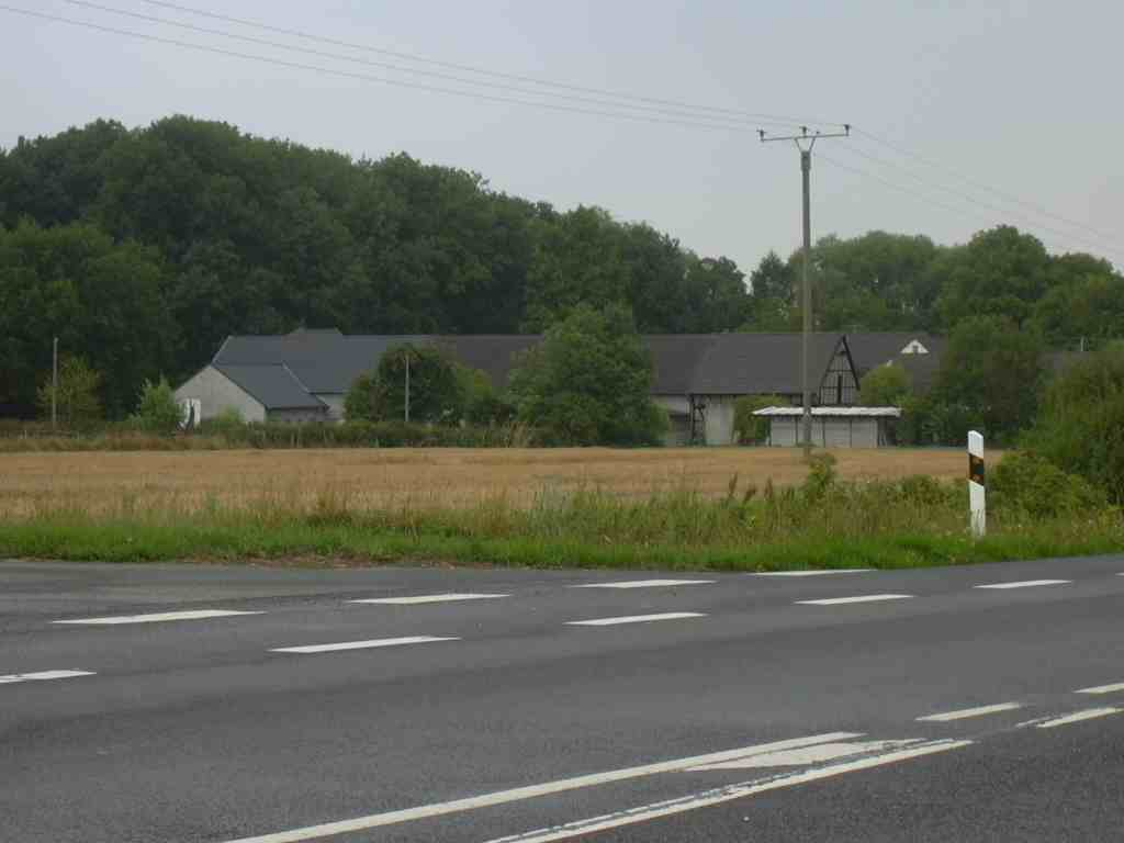 Gut Mersheim (Vettweiß) own work papa1234 2006-08-11